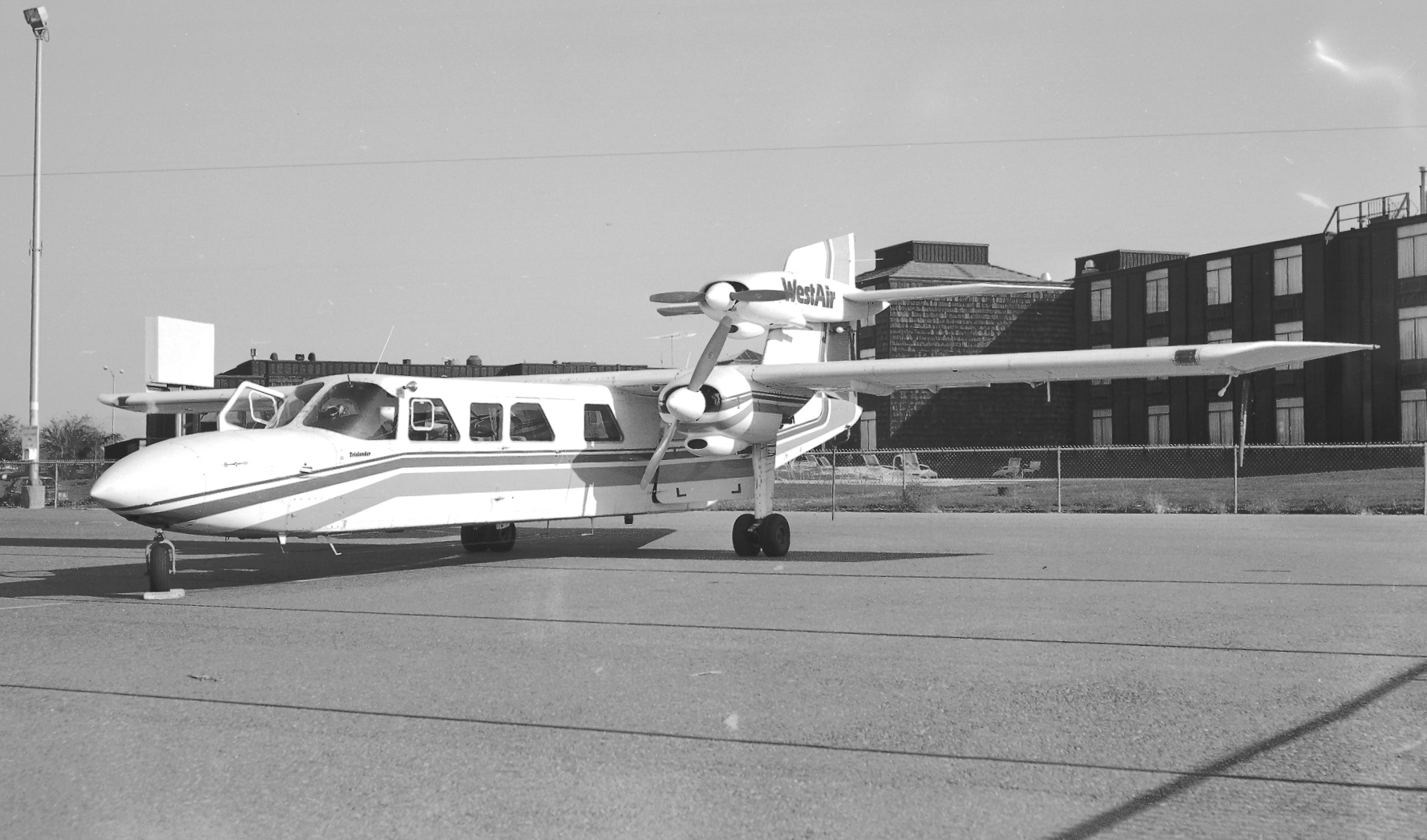 WestAir Britten-Norman Trislander (N403JA) at Buchanan Field Airport